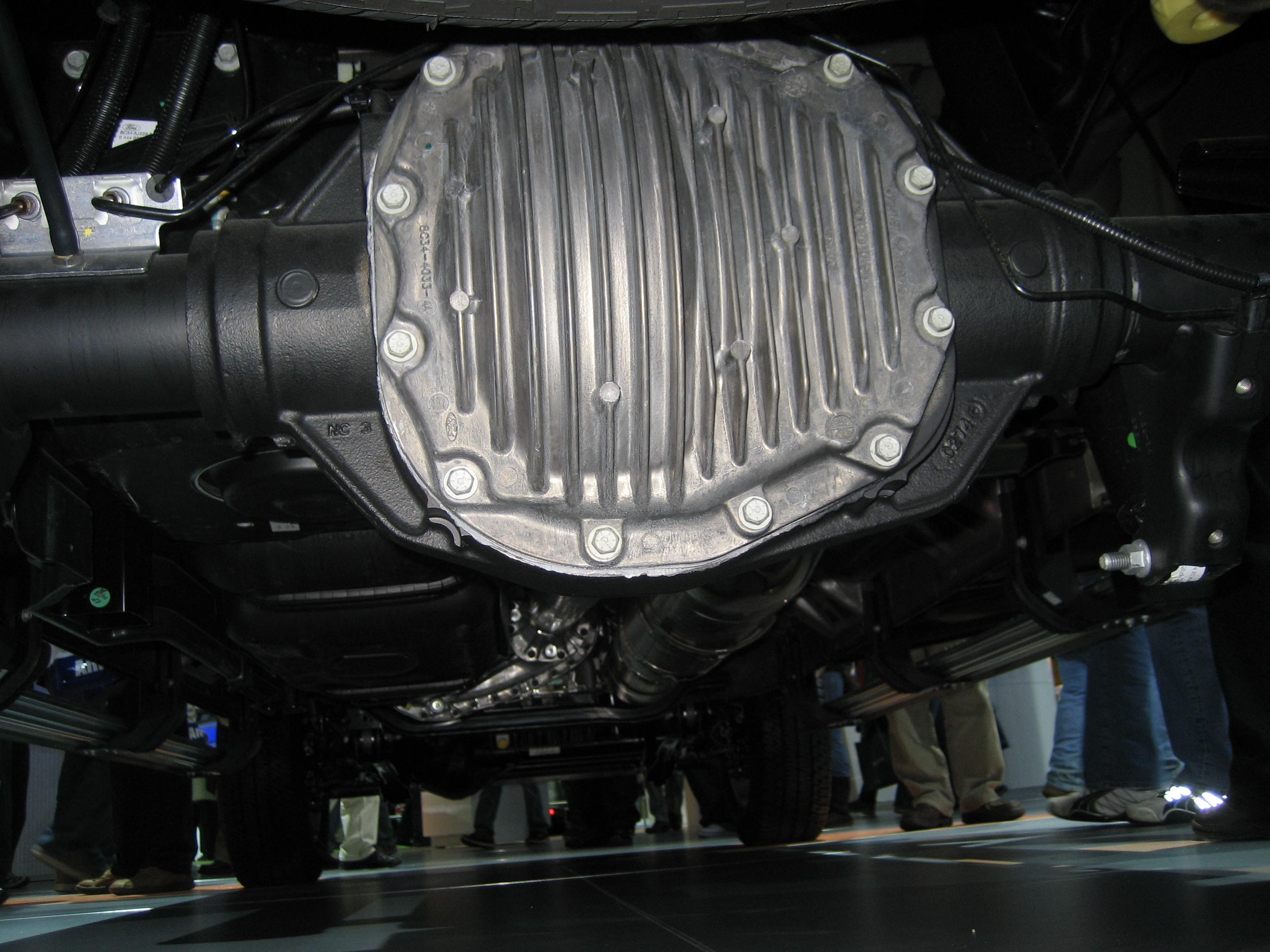 10.5 Sterling axle in 2011 Super Duty. (Note lack of E Locker)